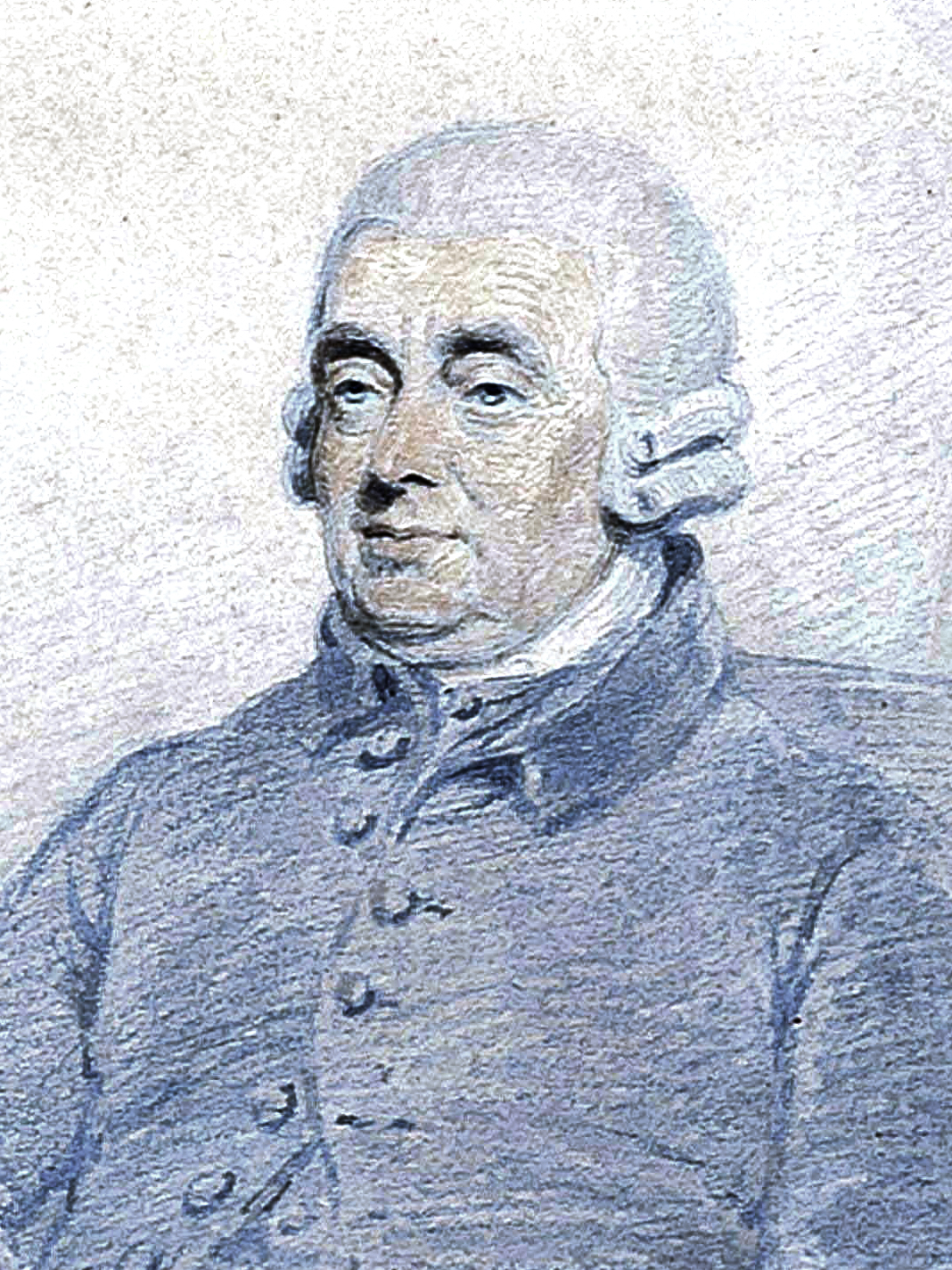 John Ord signed b.l.: H. Edridge dated b.r.: . 1806 . pencil and coloured wash 22.8 x 18.8 cm